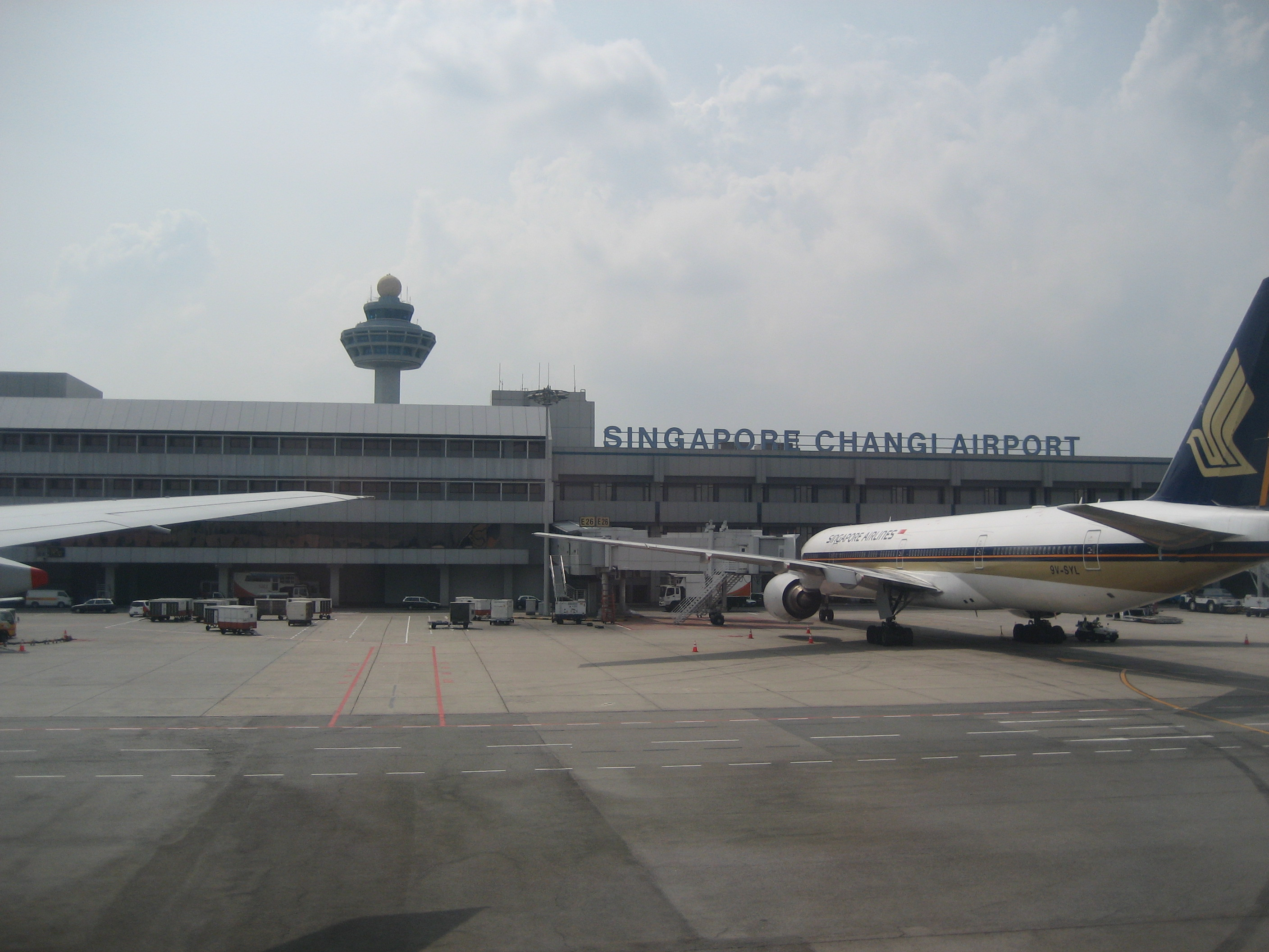 Changi International Airport, Singapore